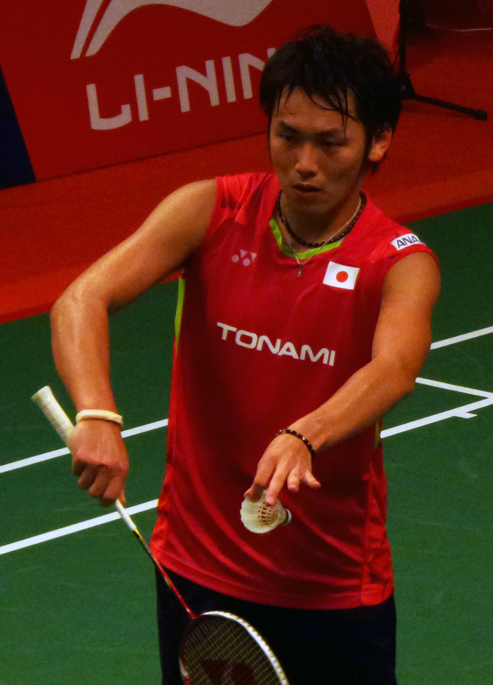 Takeshi Kamura (嘉村健士) This picture is cropped from File:TOTAL_BWF_World_Champs_2015_Day_2_T_Kamura_K_Sonoda.jpg by Griff88.